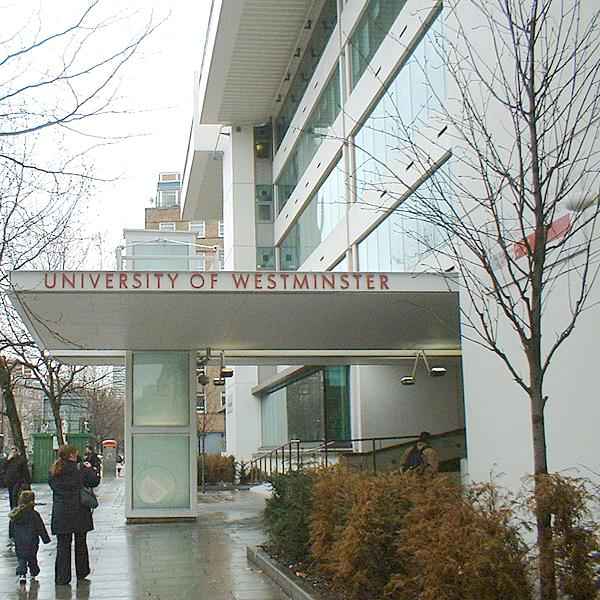 University of Westminster, Marylebone campus. Taken by C Ford, March 04. Gamma corrected by 1.6 (it looks as though the original was corrected for a Macintosh, not for the web's sRGB colour space), and white level adjusted for best presentation of main content, by David Woolley. I believe such changes are too small to attract a new copyright, but in default I release this under the same licences as the original. Category:University of Westminster